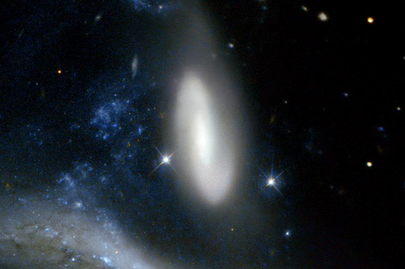 This picture, taken by the NASA/ESA Hubble Space Telescope’s Wide Field Planetary Camera 2 (WFPC2), shows a galaxy known as IC 4970 in the constellation of Pavo (The Peacock). This small lenticular galaxy is interacting with the giant spiral galaxy NGC 6872, causing the spiral arms of NGC 6872 to bloom with new star formation. Both galaxies lie around 212 million light-years from Earth.